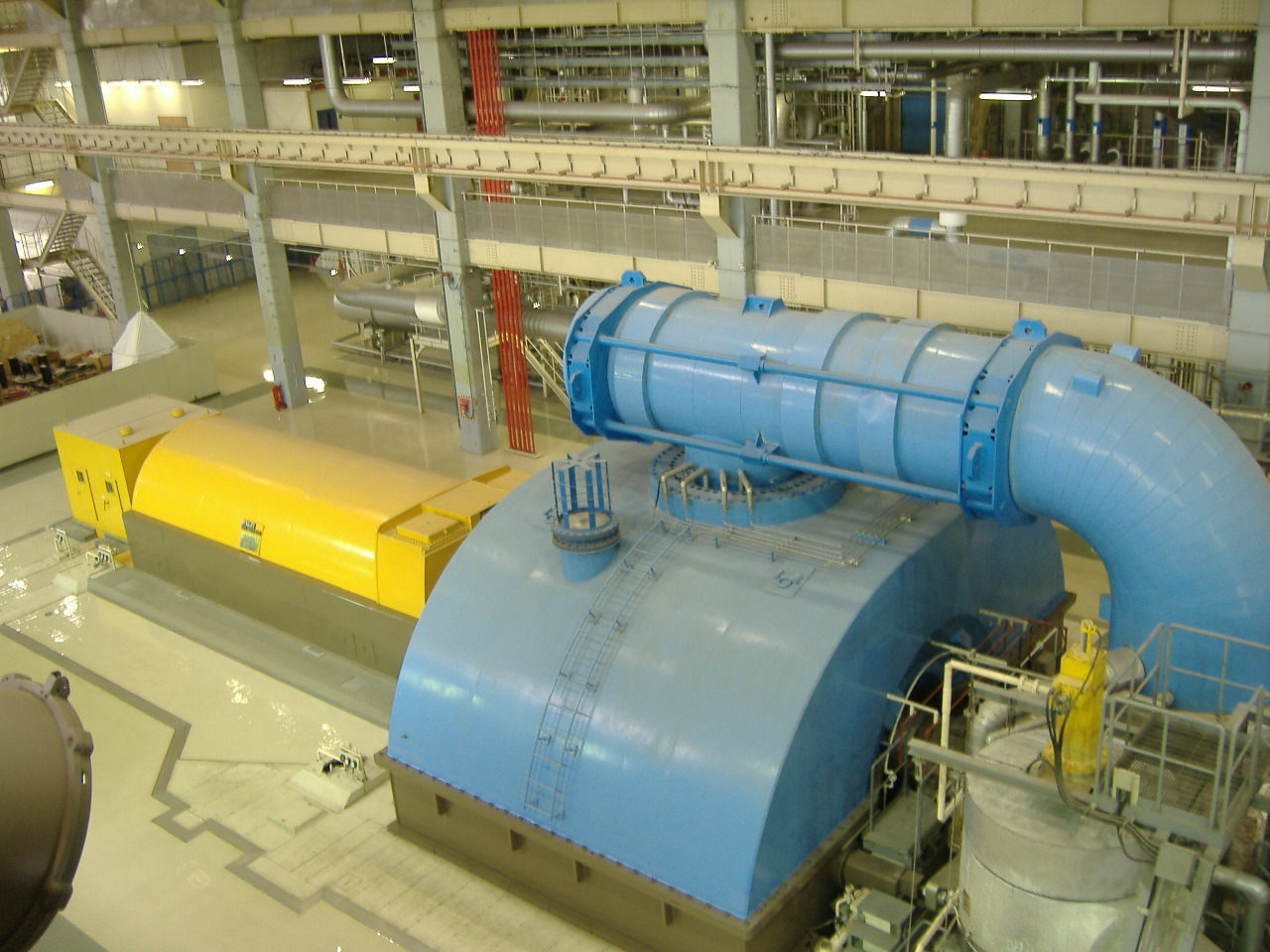 Steam turbine (J-power Isogo)